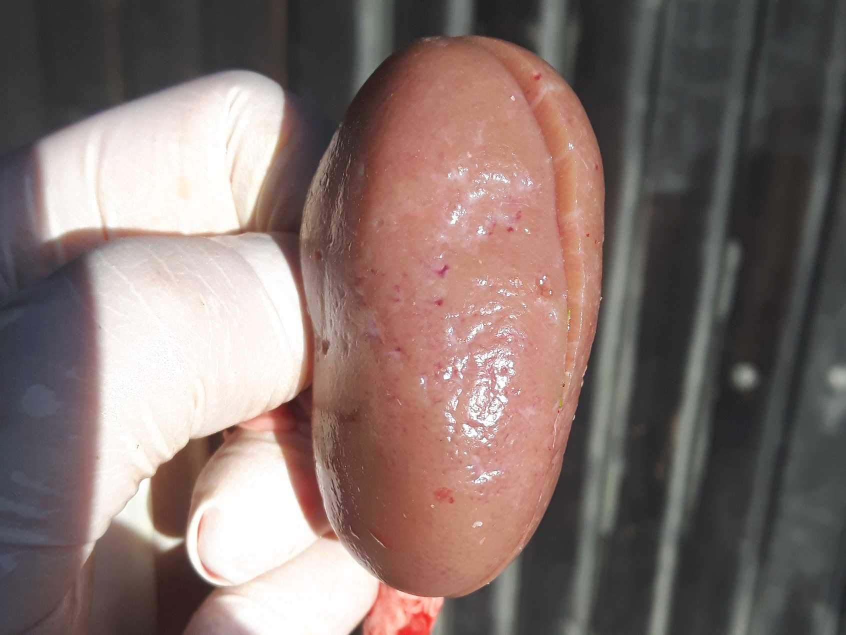 Acute nephritis / nephritis in a roebuck deer. Dangerous features are the bleeding and the slightly wrinkled surface. In the official meat inspection an acute nephritis was found, the deer is thus unfit for consumption.